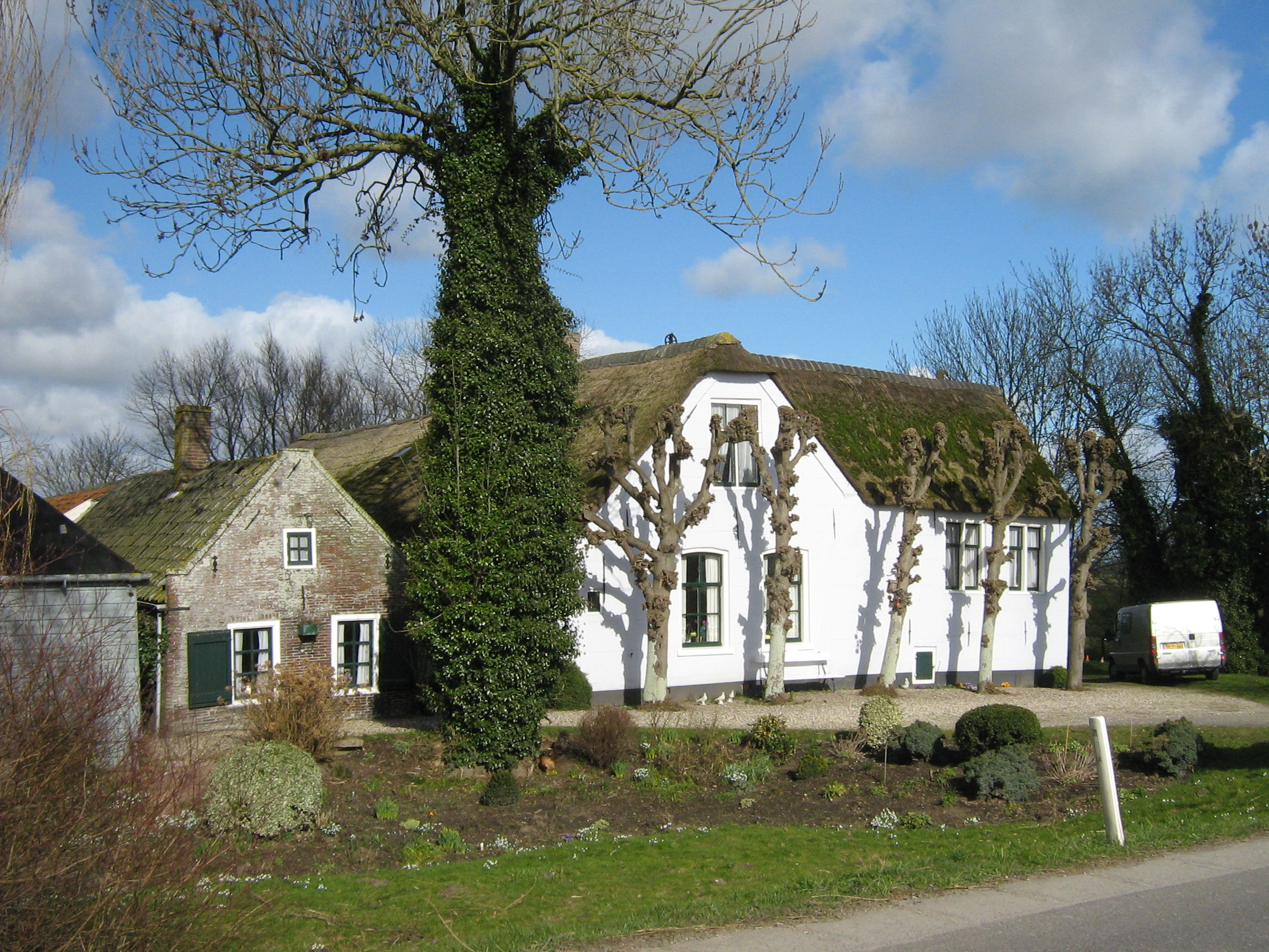 Old farm at 34 Waver, Ouder-Amstel municipality, the Netherlands. This is a national monument registered as object 31976.